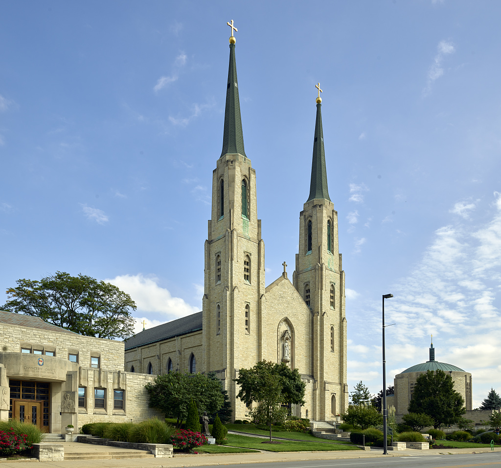 Title: The Cathedral of the Immaculate Conception in Fort Wayne, Indiana. Erected in 1860, the Roman Catholic cathedral is Fort Wayne's oldest church. Physical description: 1 photograph : digital, tiff file, color. Notes: Purchase; Carol M. Highsmith Photography, Inc.; 2016; (DLC/PP-2016:103-1).; Forms part of: Carol M. Highsmith Archive.; Credit line: Photographs in the Carol M. Highsmith Archive, Library of Congress, Prints and Photographs Division.; Title, date and keywords based on information provided by the photographer.